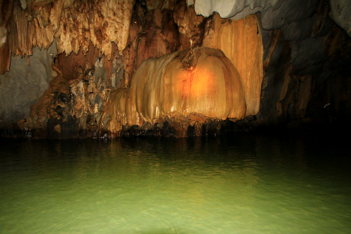 Underground River in Puerto Princesa, Palawan